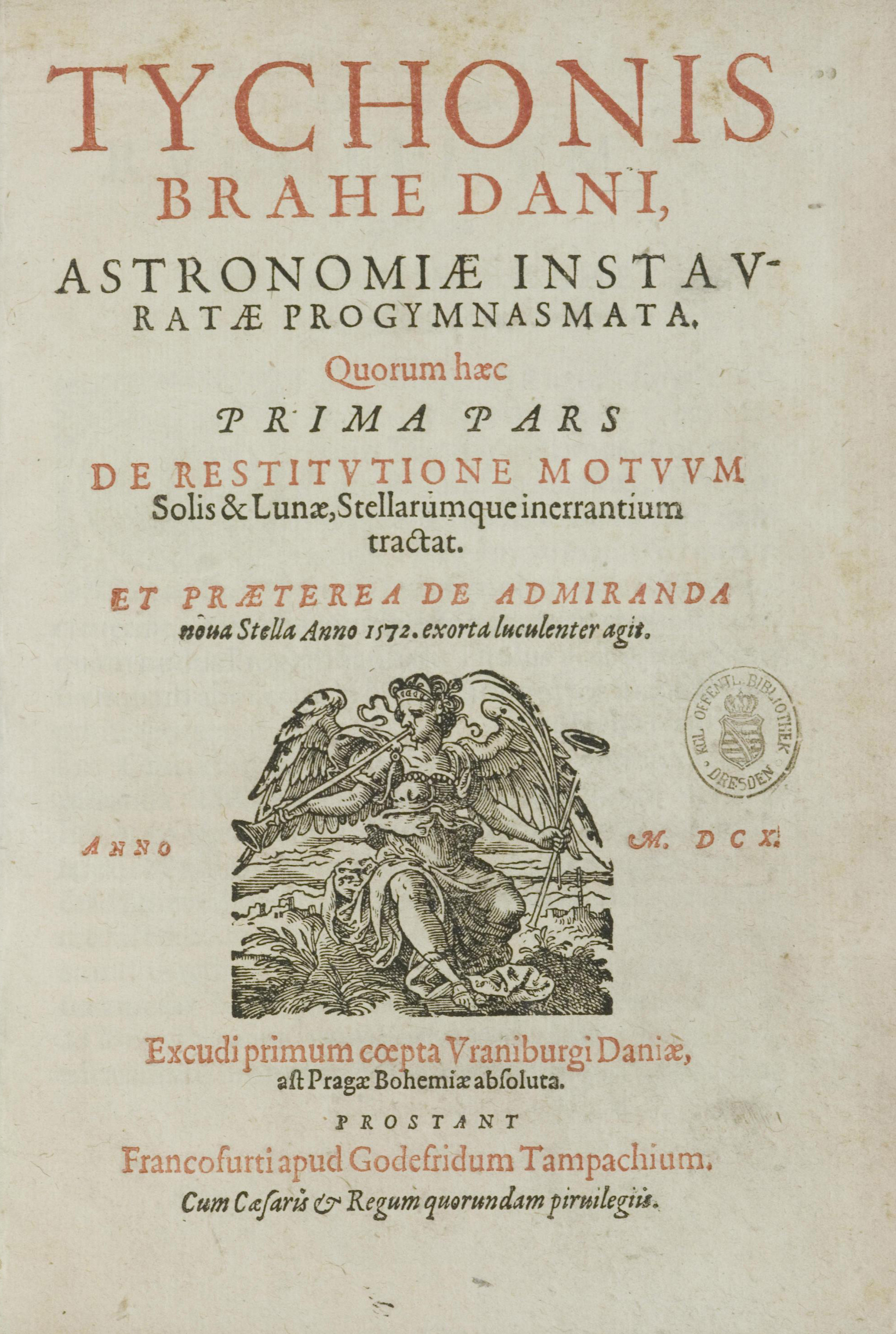 Astronomiae Instauratae Progymnasmata (Titelpage)